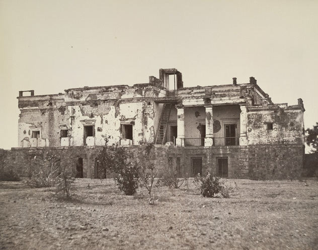 Photograph entitled, "Front of Hindu Rao's house [Delhi]" taken in 1858 by Major Robert Christopher Tytler (d. 1872)and his wife, Harriet (d. 1907). During the rebellion, the house was defended by the British and came under heavy gunfire. The house is now a hospital.